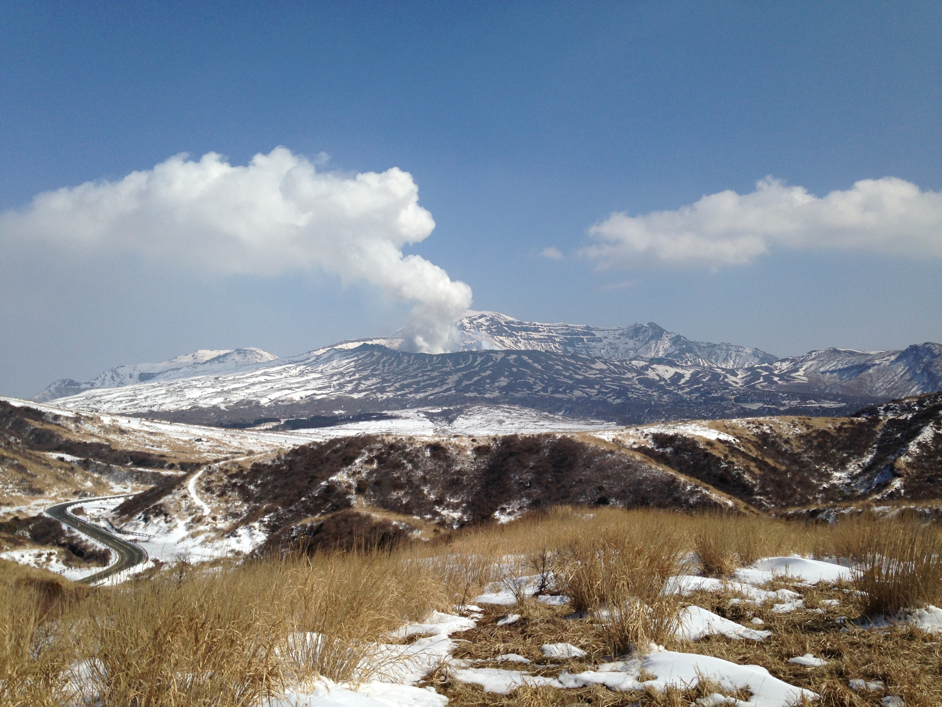 Mount Naka in the Aso Caldera, as seen from the hill in east Kusasenrigahama